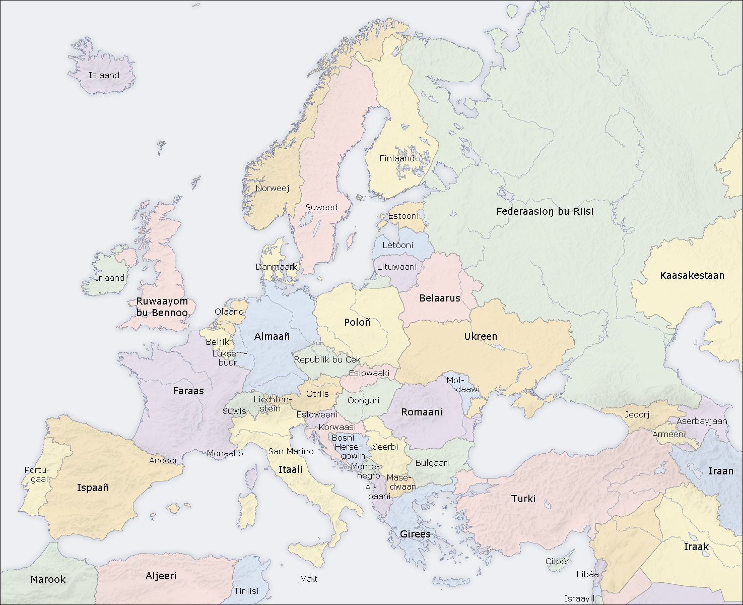 Map of countries in Europe in Wolof language